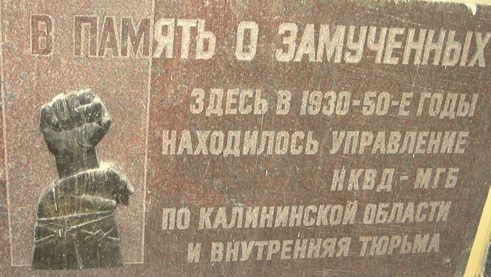 г. Тверь